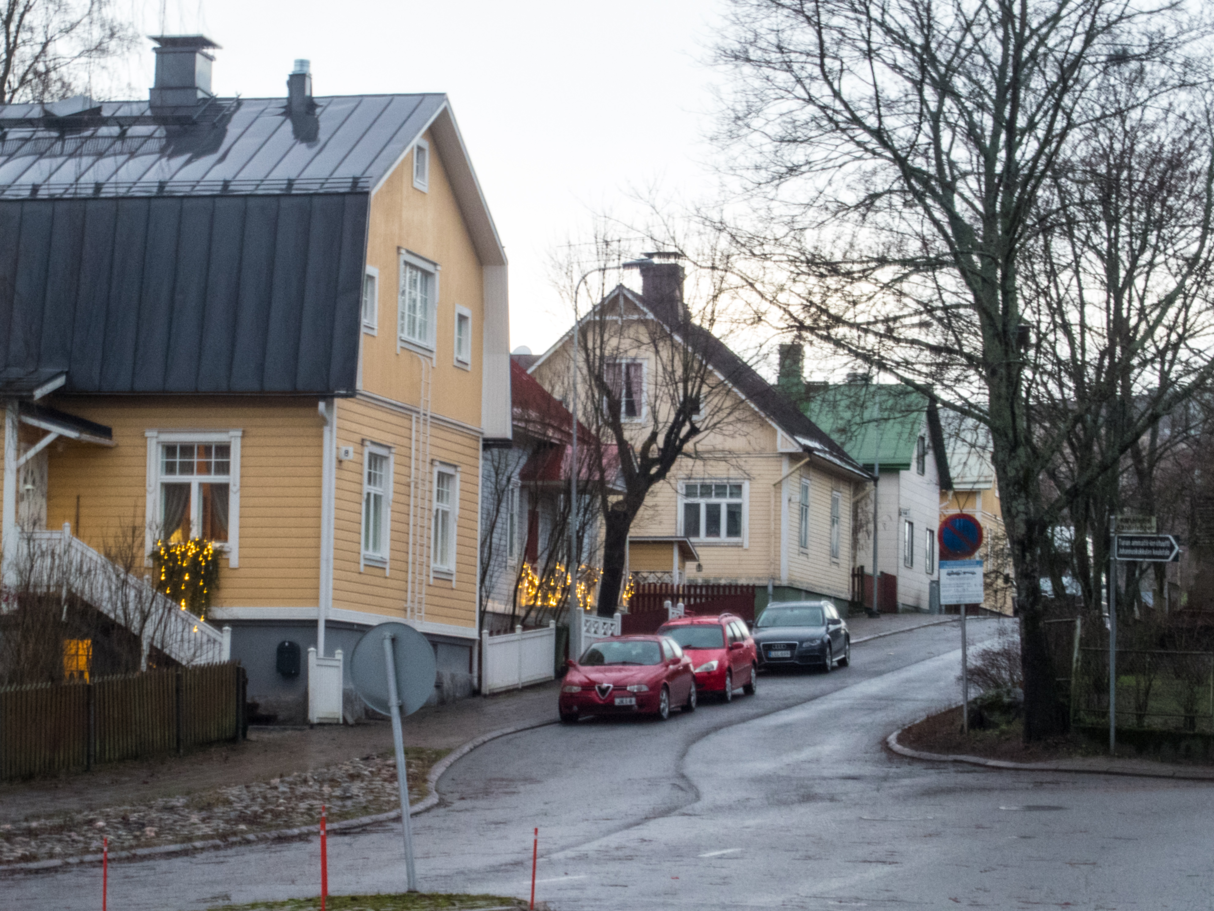 Wooden villas in Kähäri suburb, Turku, Finland